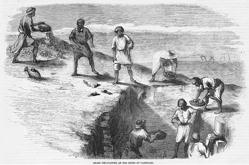 From the Illustrated London News of 15 May 1858, Arabs Excavating at the Ruins of Carthage, excavations run by Nathan Davis.